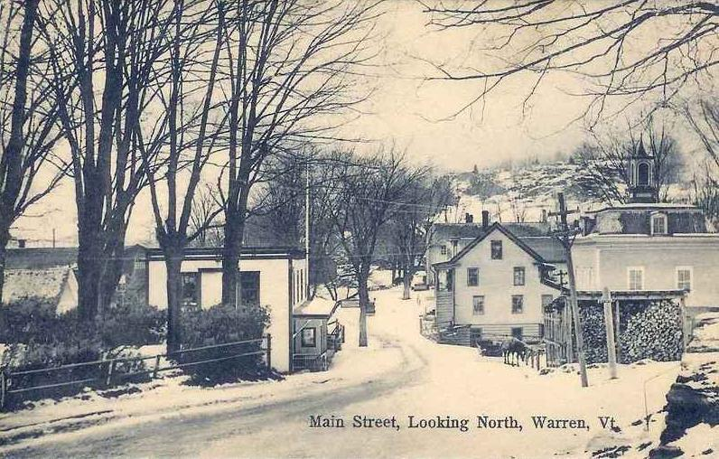 Main Street, looking north, Warren, Vermont